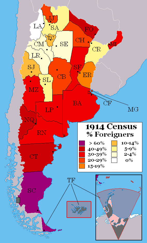 The image shows a map colored according to the percentage of immigrants registered in the Third Census of the Argentine Republic, conducted ​​in 1914.